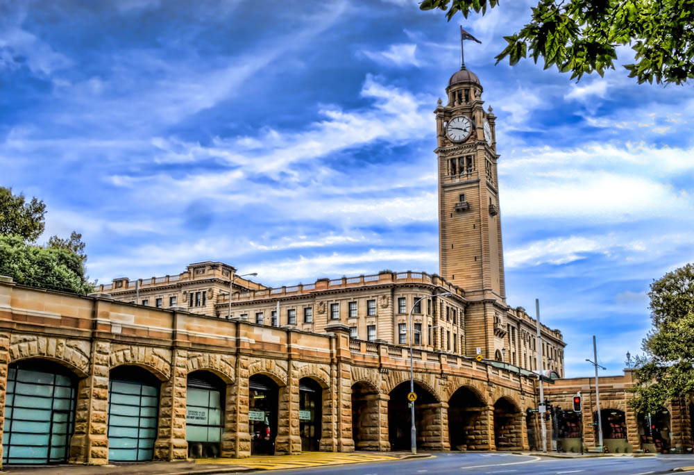 Sydney Central Railway Station from Pitt Street